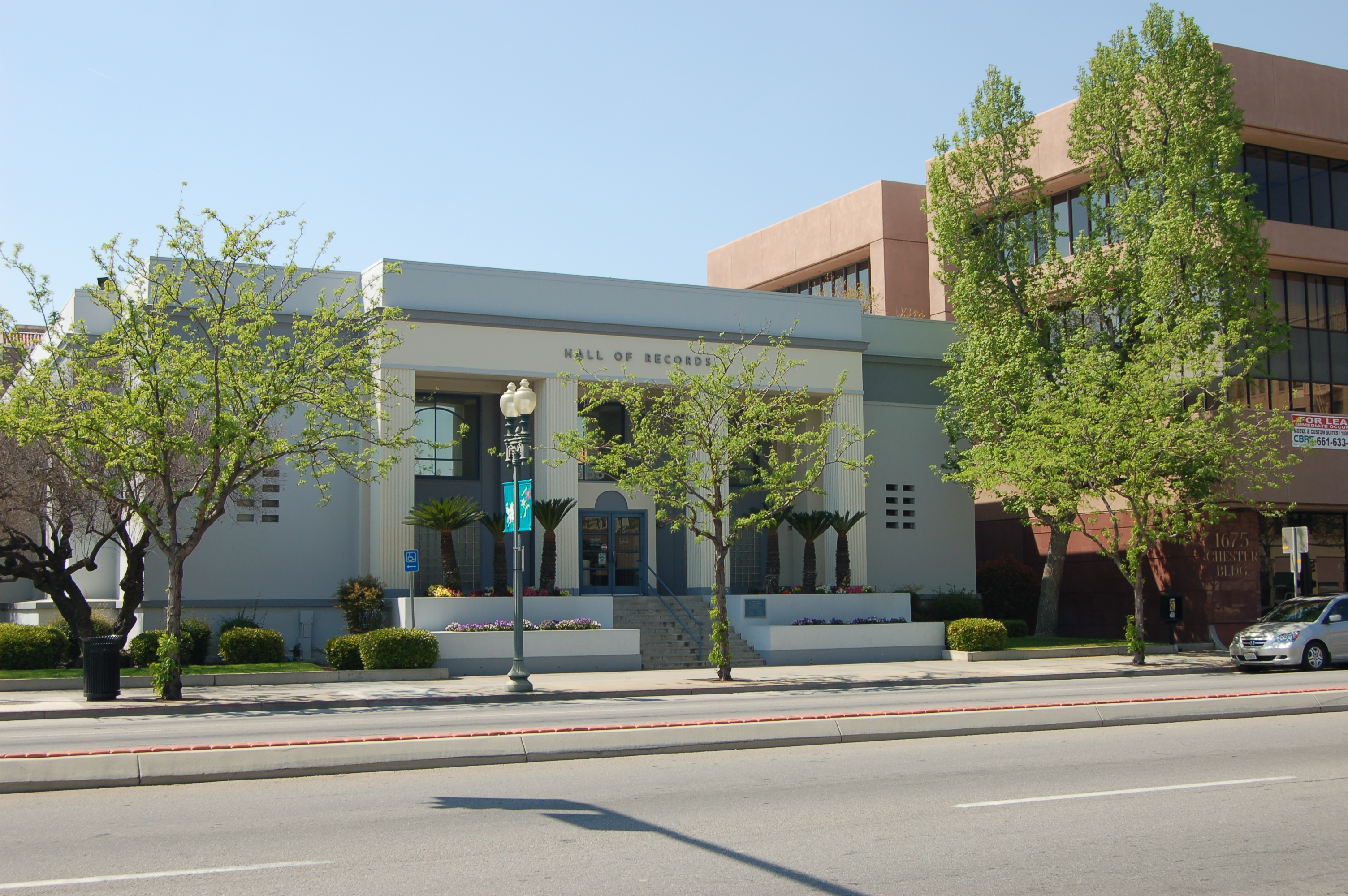 Kern County Hall of Records Building Front.